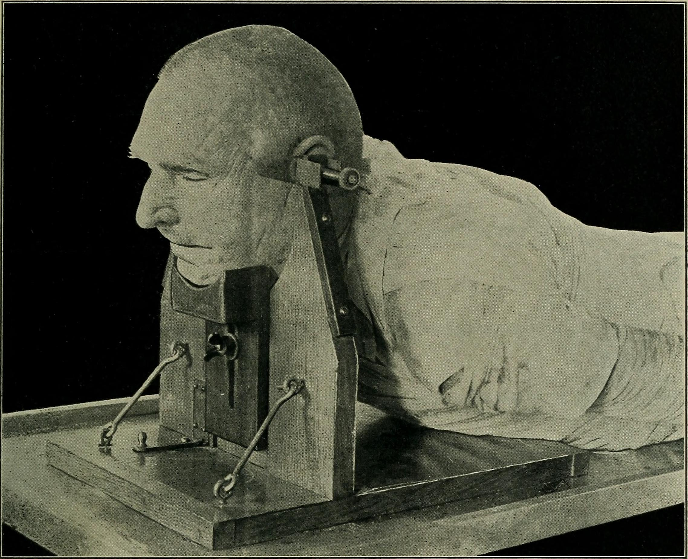 Title: Postmortem pathology; a manual of the technic of post-mortem examinations and the interpretations to be drawn therefrom; Year: 1906 (1900s) Authors: Cattell, Henry W(are), 1862- (from old catalog) Subjects: Anatomy, Pathological Autopsy Publisher: Philadelphia and London, J. B. Lippincott company Text Appearing Before Image: y be needed for withdrawing urine.A blozv-pipe with a stop or valve, a trocar and cannula, probes, someof which have eyes, and some form of injecting syringe are alsouseful. A vise is serviceable in firmly holding bone preparations incourse of dissection, and in fixing a saw that is being sharpened. Askull clamp is considered by some to be of use in removing the calva-rium (Figs. 42, 43, and 44). Iron tripods and other special devicesfor holding the head are shown in Figs. 45 and 46. Weights and measures of various kinds are frequently found to beindispensable. These should include scales, a steel tape measure (Fig.21, 9), graduated calipers, graduated glass cones, glass balls, and grad-uated measuring vessels of glass. The scales should have a capacity oftwenty pounds, or ten kilogrammes, and be supplied with weights froma gramme upward. They are needed in weighing organs. The steeltape measure and the two-feet rule are marked both in centimetres 1 Presse med., July 20, 1904, p. 460. Text Appearing After Image: Fig. 46.—Cornell folding clamp for the secure holding of the head in the removal of the calvarium.(See article by B. B. Stroud in the Proc. Assoc. Amer. Anat., May, 1900, p. 10, and the Med. News,December 9, 1905. In the later communication, an iron form of head-rest is described. Specificationsfor the making will be sent upon application to the author.)